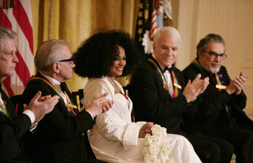 Singer Diana Ross is applauded by her fellow Kennedy Center honorees as she is recognized for her achievements by President George W. Bush in the East Room of the White House Sunday, Dec. 2, 2007, during the Kennedy Center Gala Reception. From left are singer, songwriter Brian Wilson; filmmaker Martin Scorsese; comedian, actor and author Steve Martin and pianist Leon Fleisher.